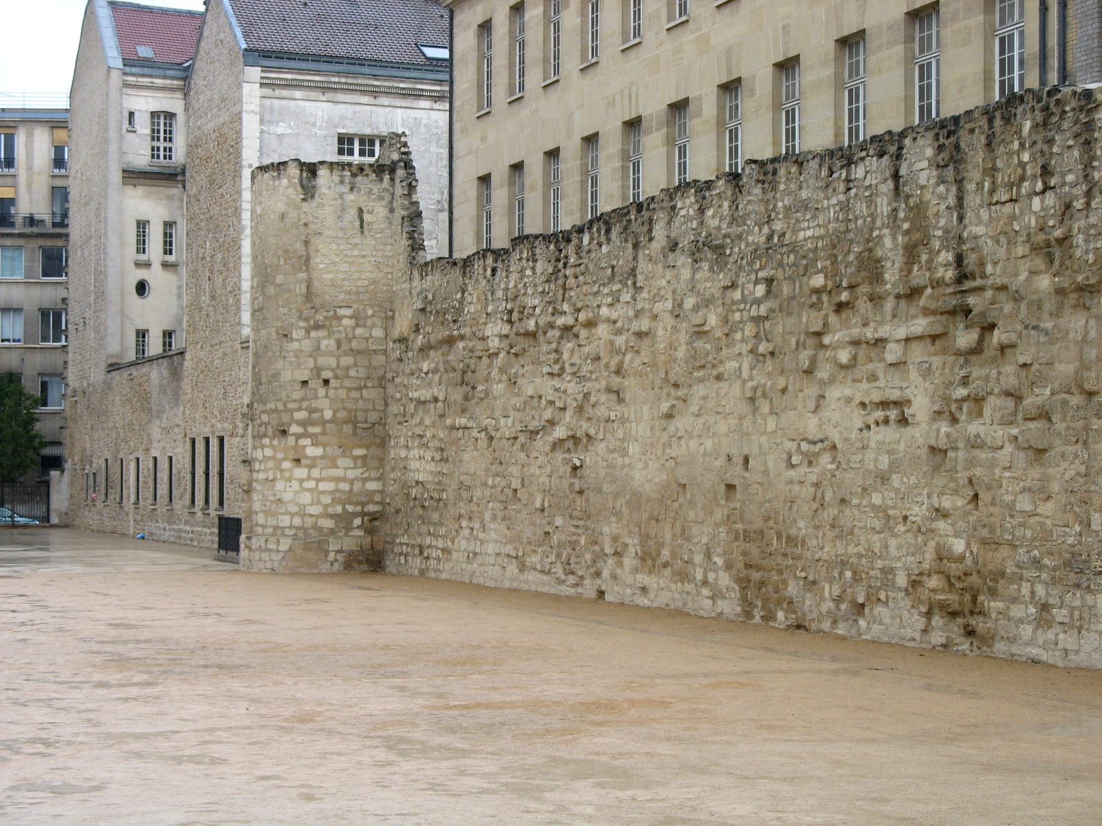 Enceinte of Paris 12th century